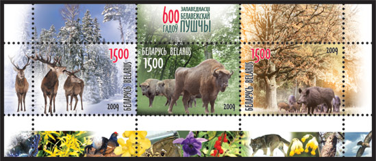 Stamp of Belarus